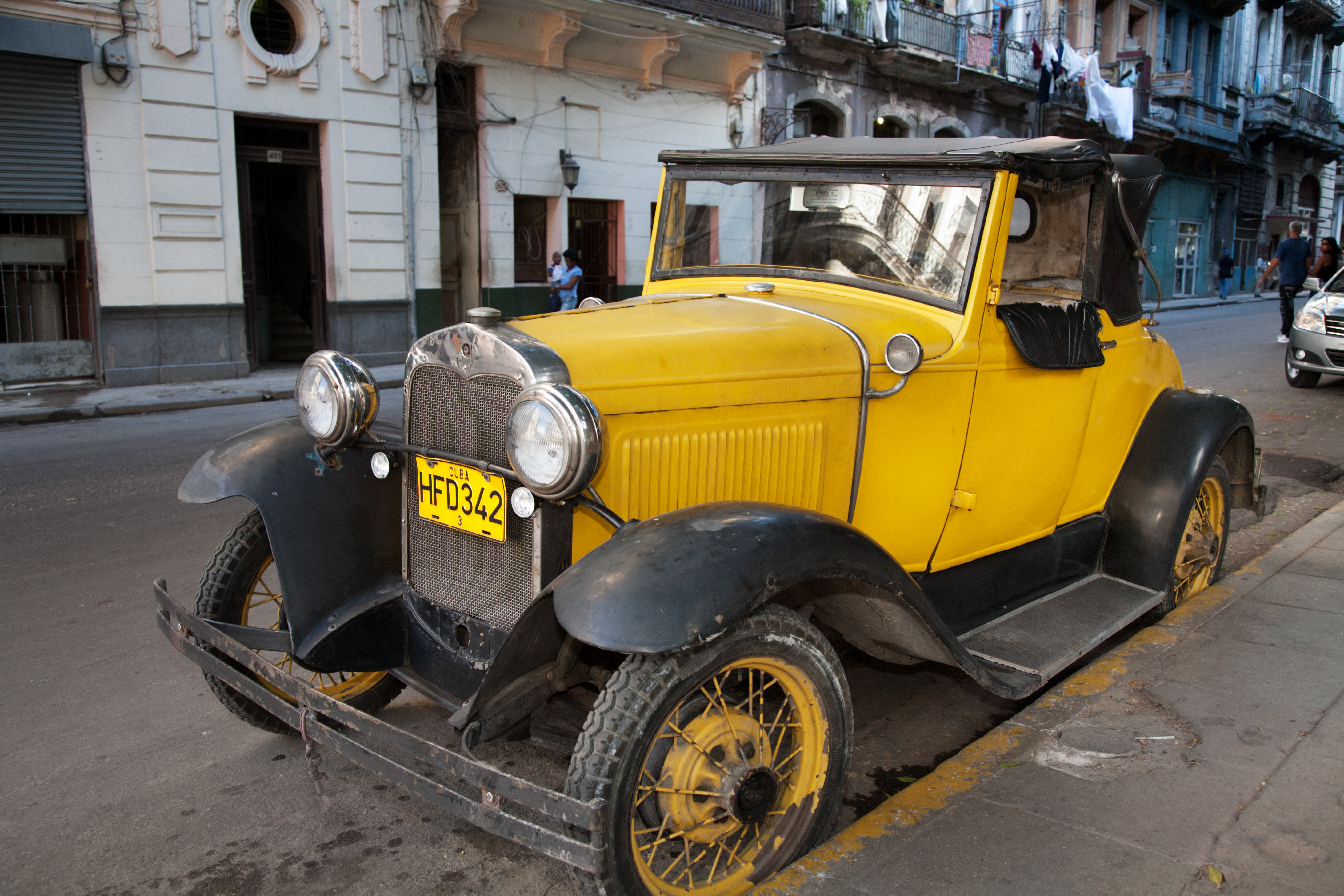 Vintage car. A 1930 Ford Model A. Havana (La Habana), Cuba